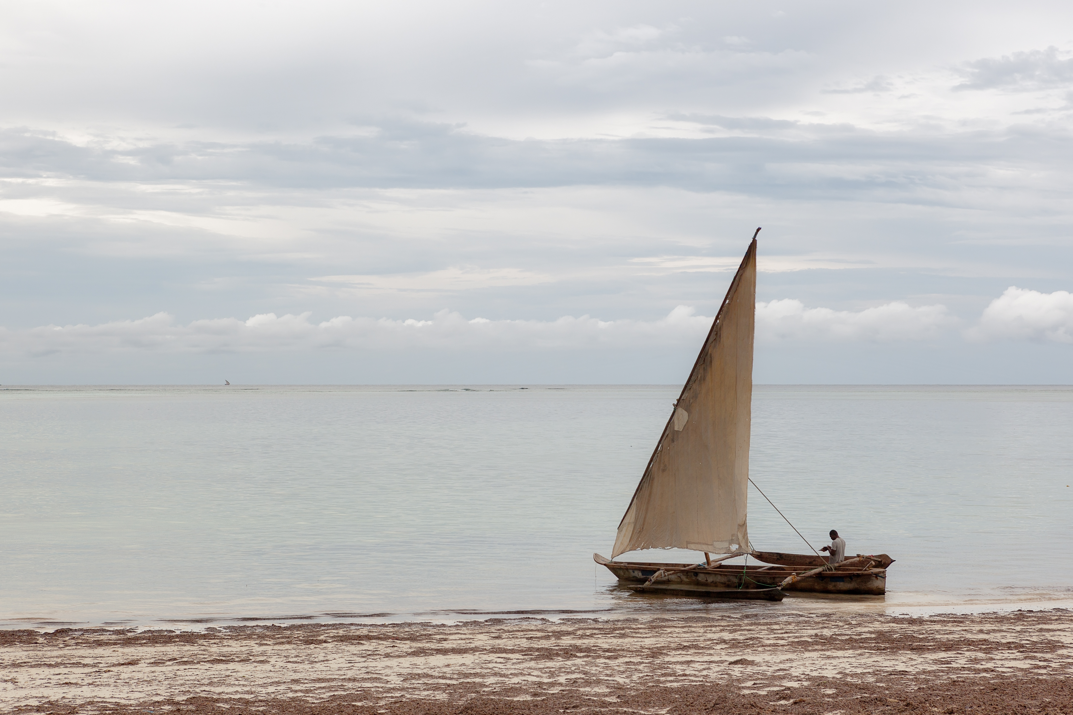 Dhow boat staying on the beach, Zanzibar, Tanzania